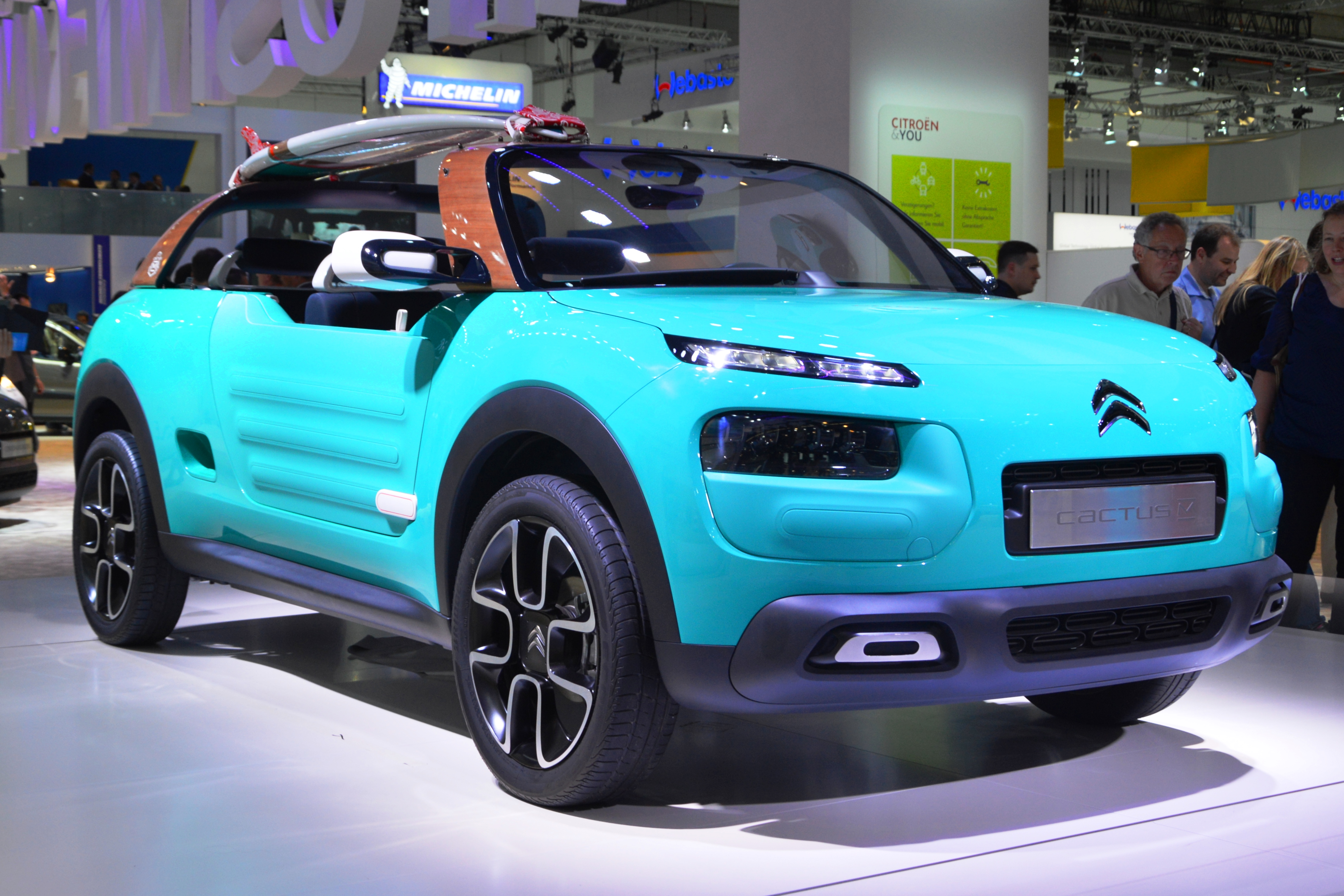 Citroën Cactus M. Photo taken at exhibition IAA 2015 in Frankfurt, Germany.